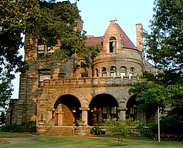 Rhodes Hall exterior front (property of The Georgia Trust for Historic Preservation)